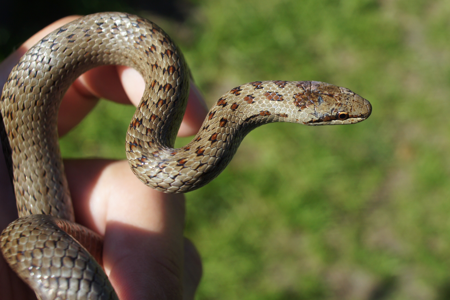 Smooth snake (Coronella austriaca)